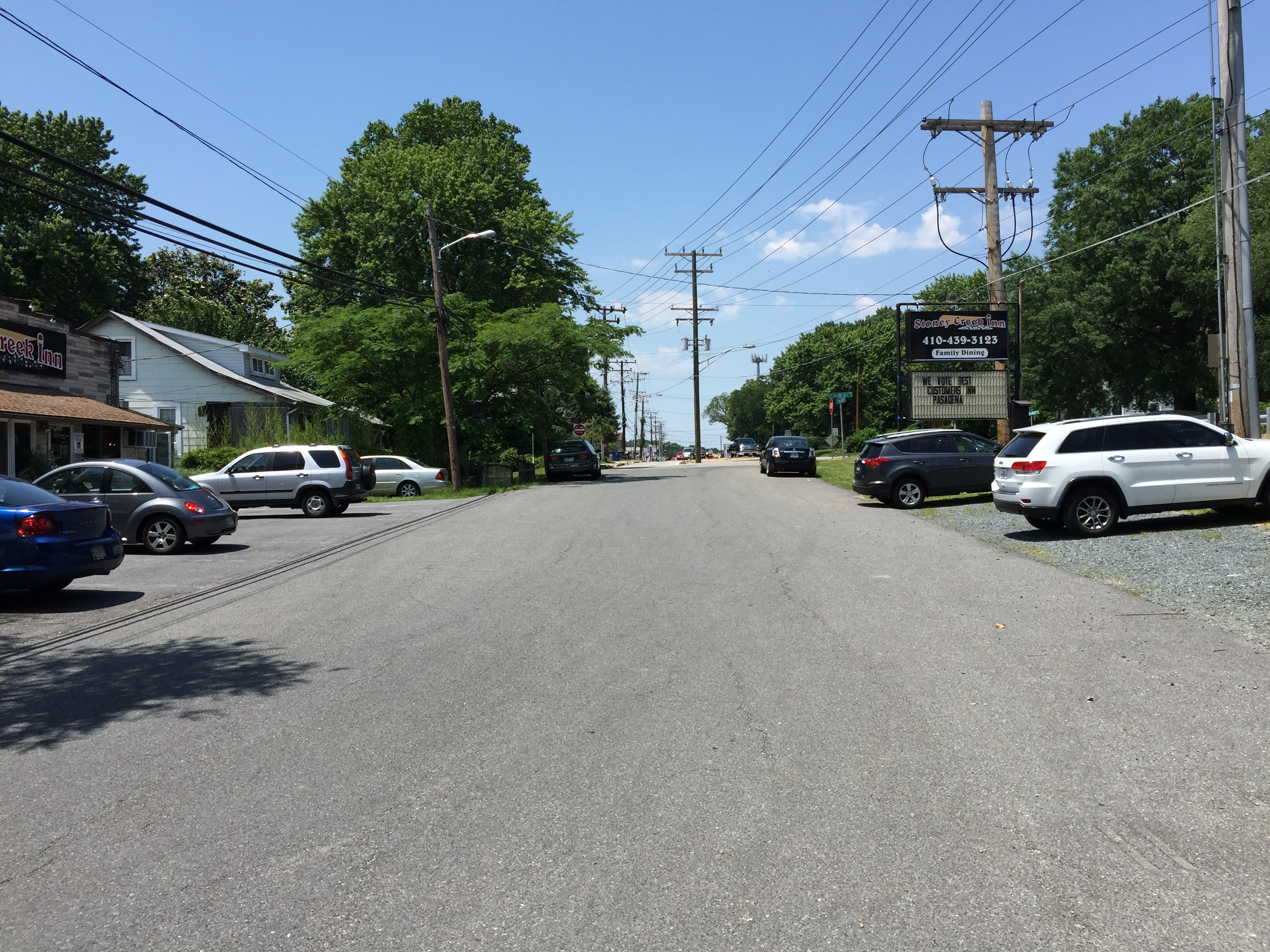 View west along Maryland State Route 642 (Old Fort Smallwood Road/Greenland Beach Road) at Greenland Beach Road in Riviera Beach, Anne Arundel County, Maryland